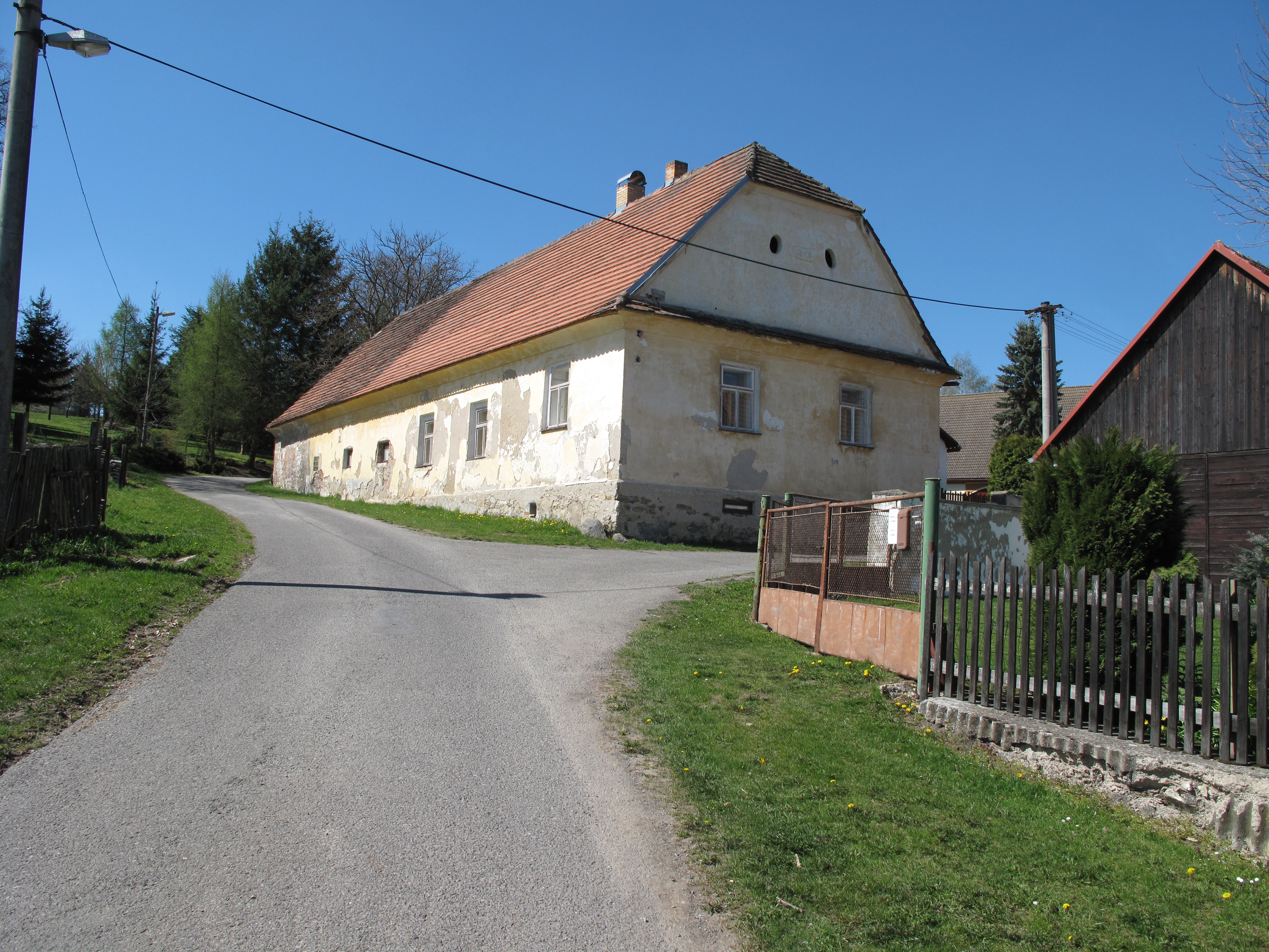 House in Pohoří (Jistebnice).